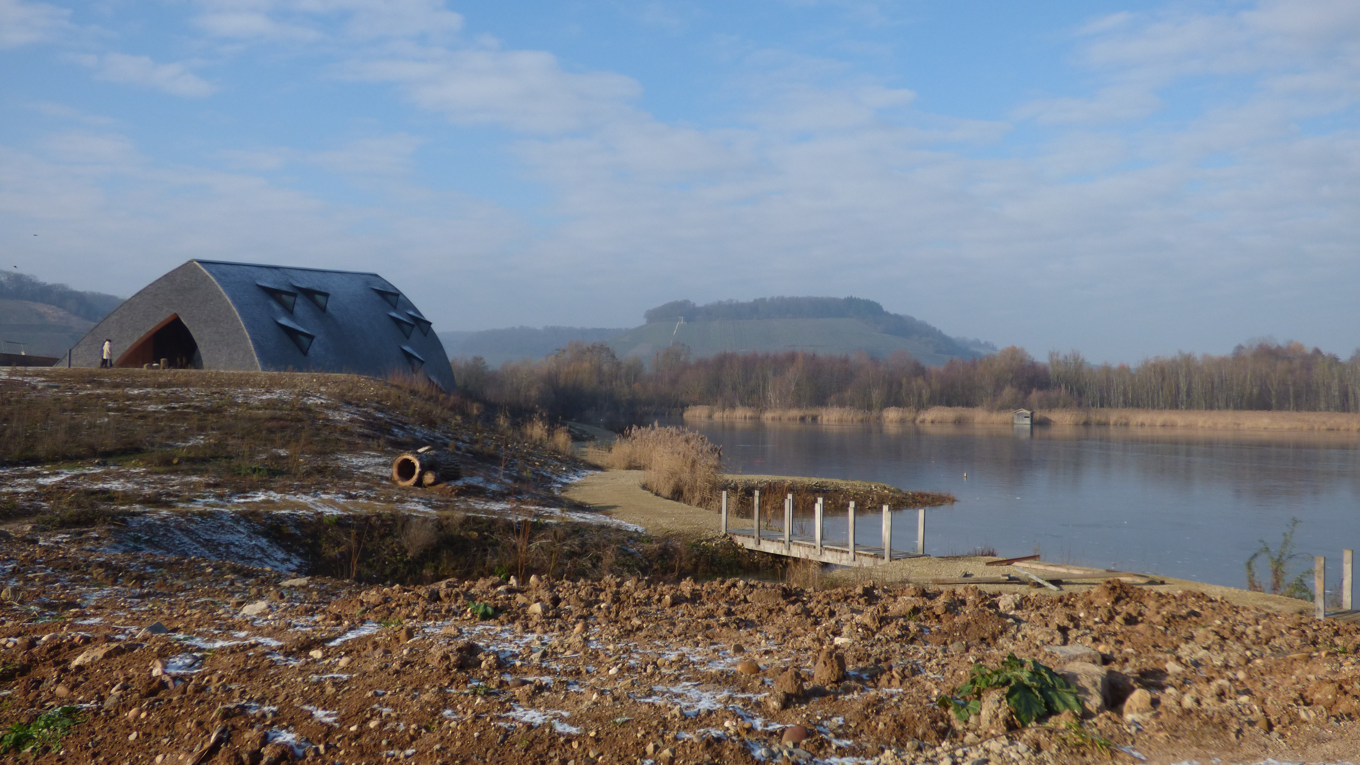 HAFF REIMECH on a cold day in January